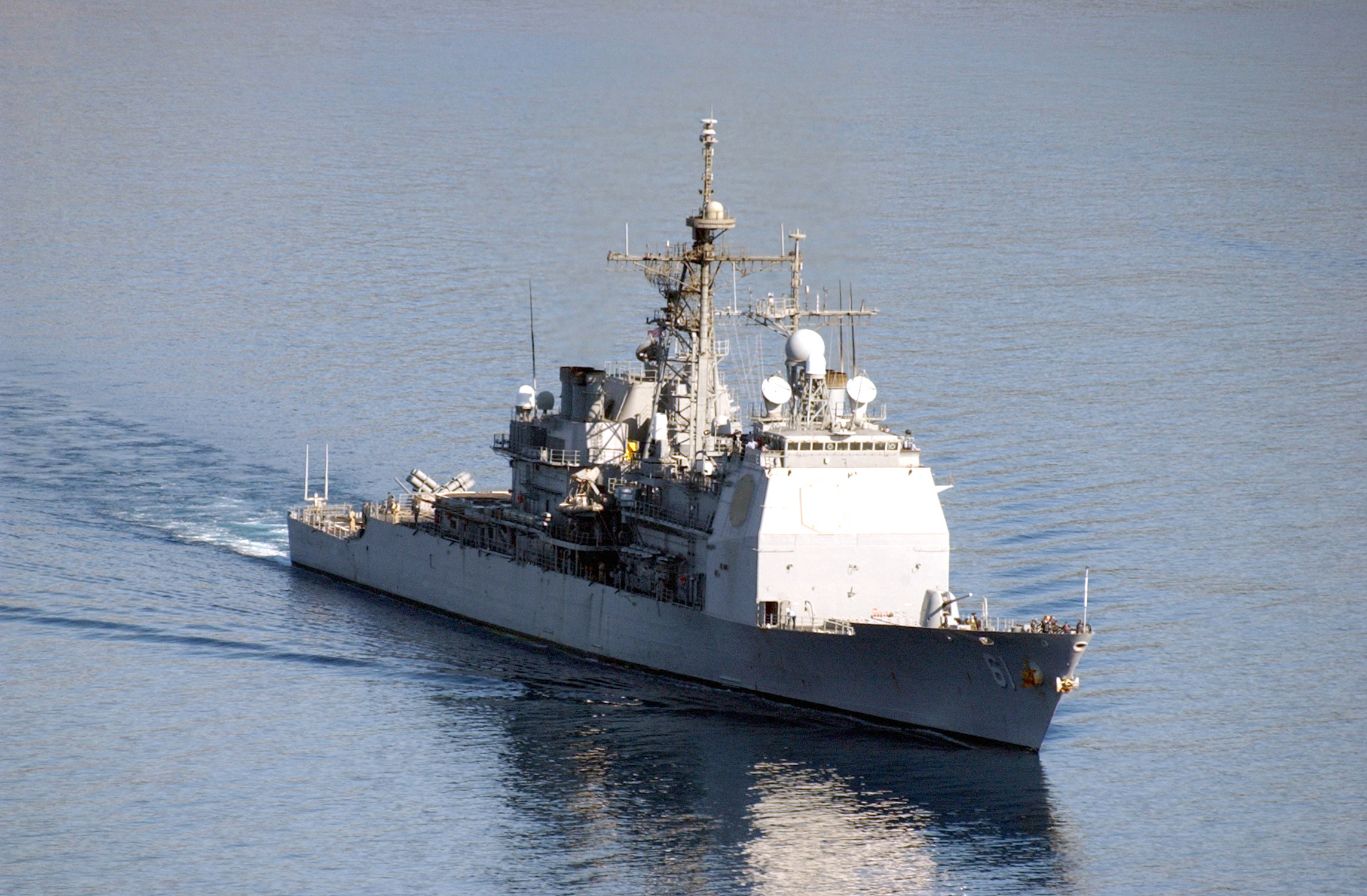 The guided missile cruiser, USS Monterey (CG-61), departs Souda Bay after a brief port visit. Monterey is deployed as a part of the USS George Washington (CVN-73) Battle Group in support of Operation Enduring Freedom. Modern U.S. Navy guided missile cruisers perform primarily in a Battle Force role. These ships are multi-mission surface combatants capable of supporting carrier battle groups, amphibious forces, or operate independently and as flagships of surface action groups. Due to their extensive combat capability, these ships have been designated as Battle Force Capable (BFC) units. The cruisers are equipped with Tomahawk cruise missiles giving them additional long-range strike mission capability.